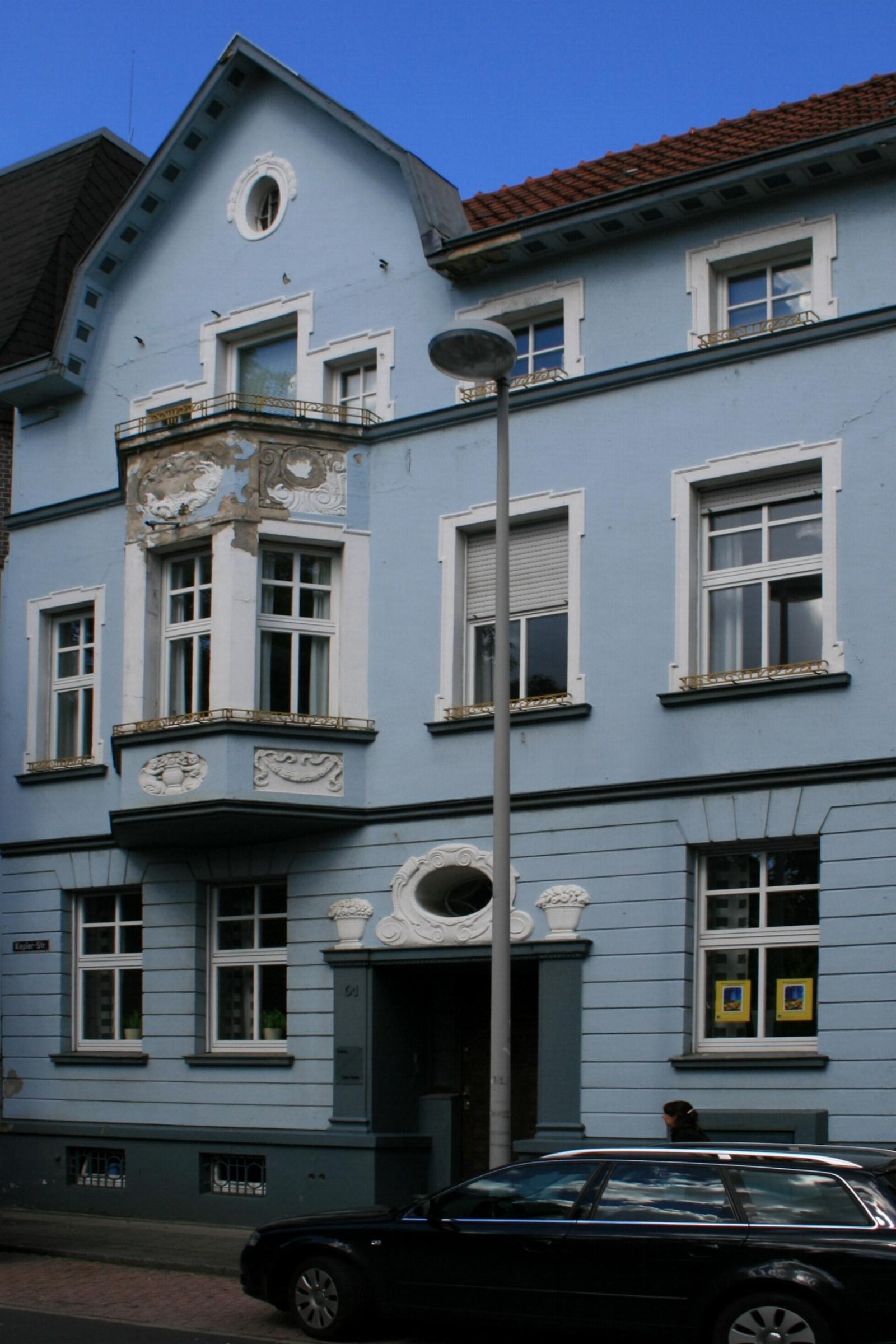 Cultural heritage monument No. K 002 in Mönchengladbach